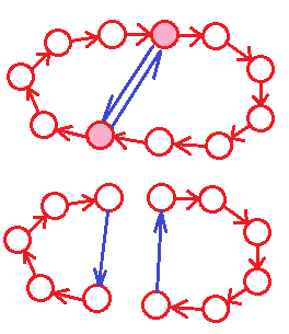 one cycle hit by a transposition